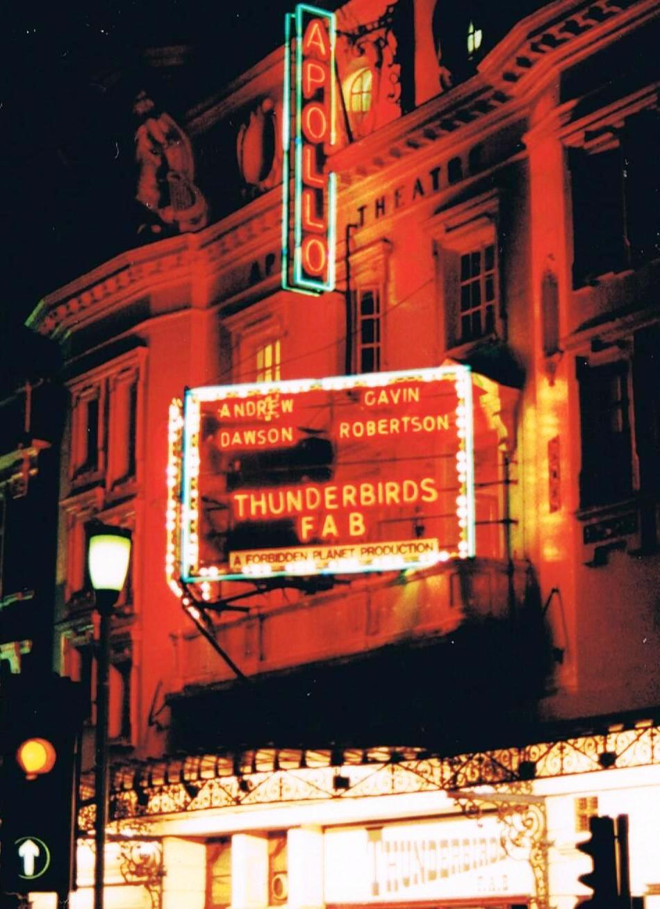 Original description: "Thunderbirds FAB Apollo Theater marqee from 1989, live show based on television series."